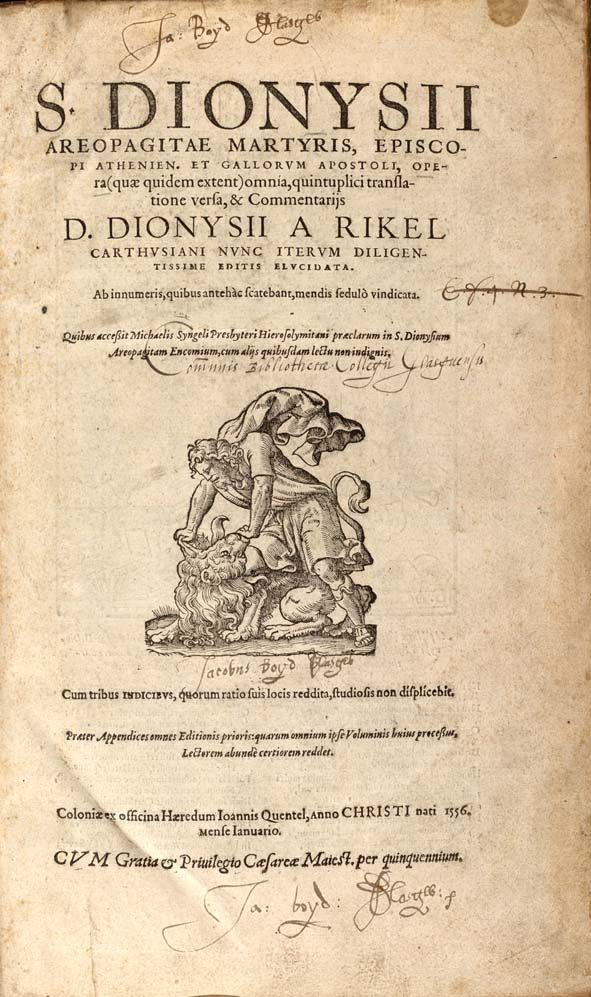 Title-page of Pseudo-Dionysius, Opera Koln: 1556. The most important donation supplementing that of Buchanan was given by James Boyd, Bishop of Glasgow. In 1581 he bequeathed 48 volumes of chiefly Patristic texts. Some of his books - including this work of Dionysius - had belonged to James Beaton, the last Roman Catholic Archbishop of Glasgow, who had fled to France in 1603. Boyd's signature is repeated three times on the title-page, while Archbishop Beaton's heraldic stamp is on the covers.